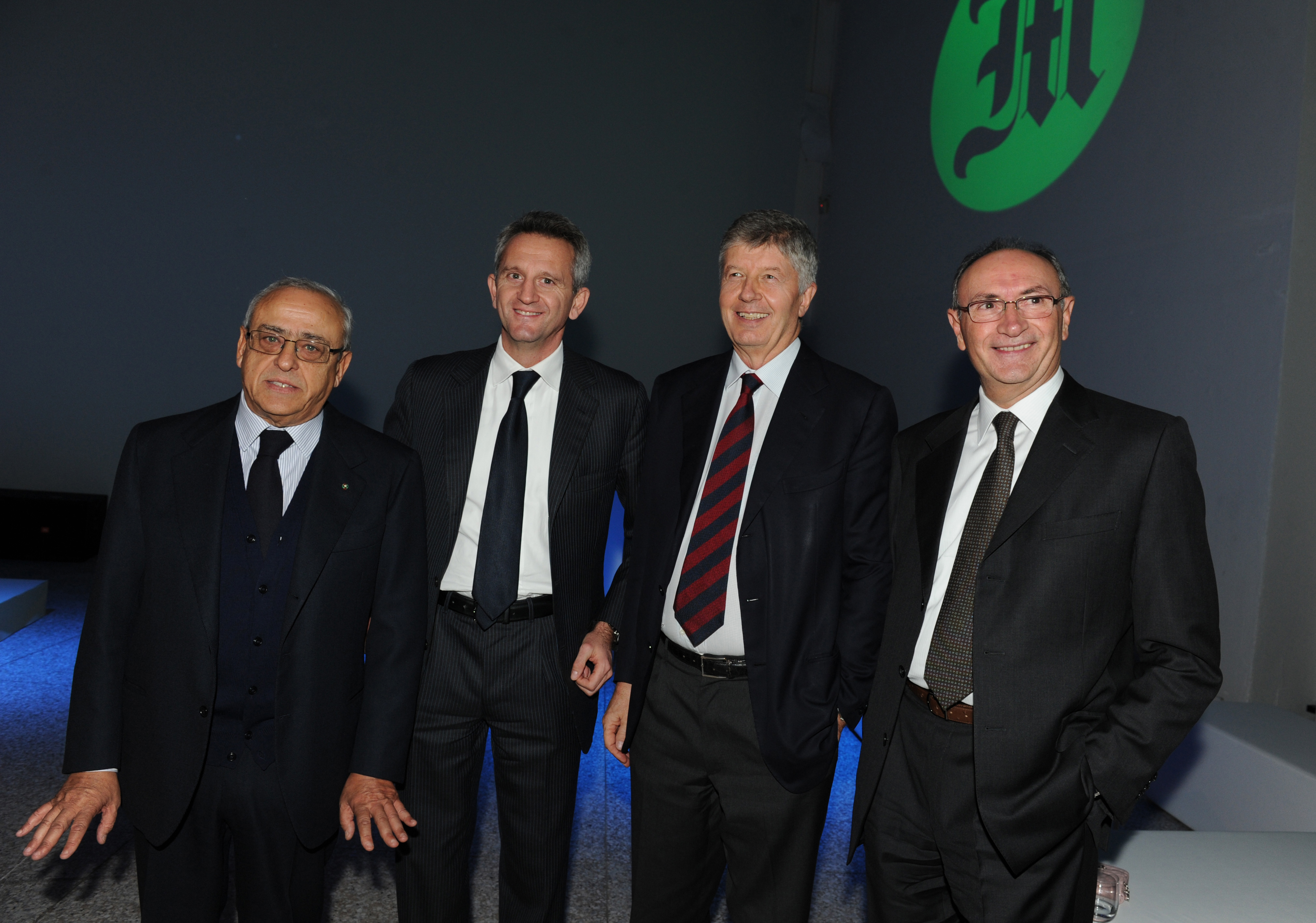 Francesco Gaetano Caltagirone, Alberto Nagel (Mediobanca-S.p.A.), Gabriele Galateri (Generali) and Federico Ghizzoni (Unicredit) at the restyling event of the newspaper "Il Messaggero" (Milan, 2012).